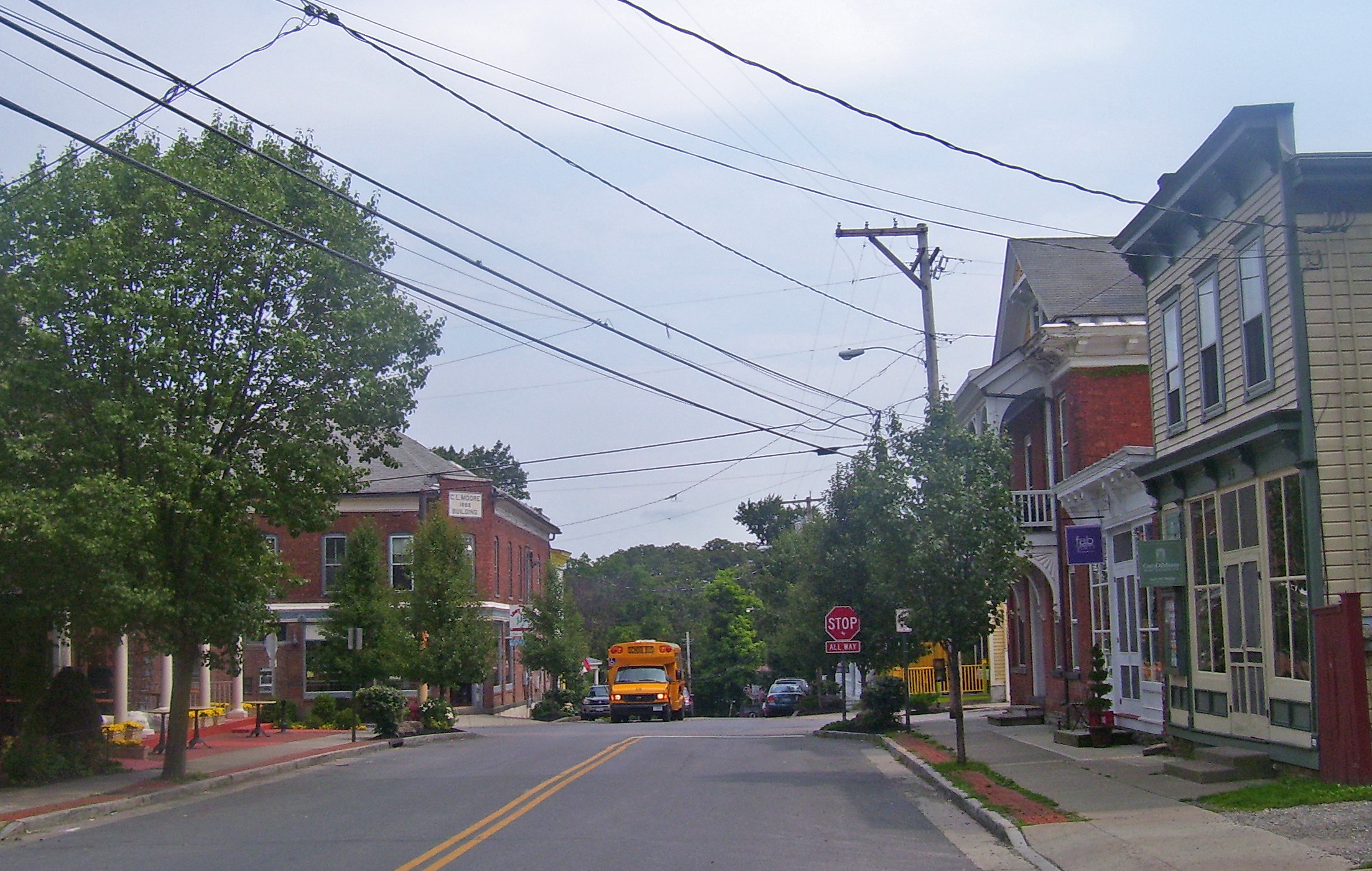 View east along Broadway in Tivoli, NY, USA